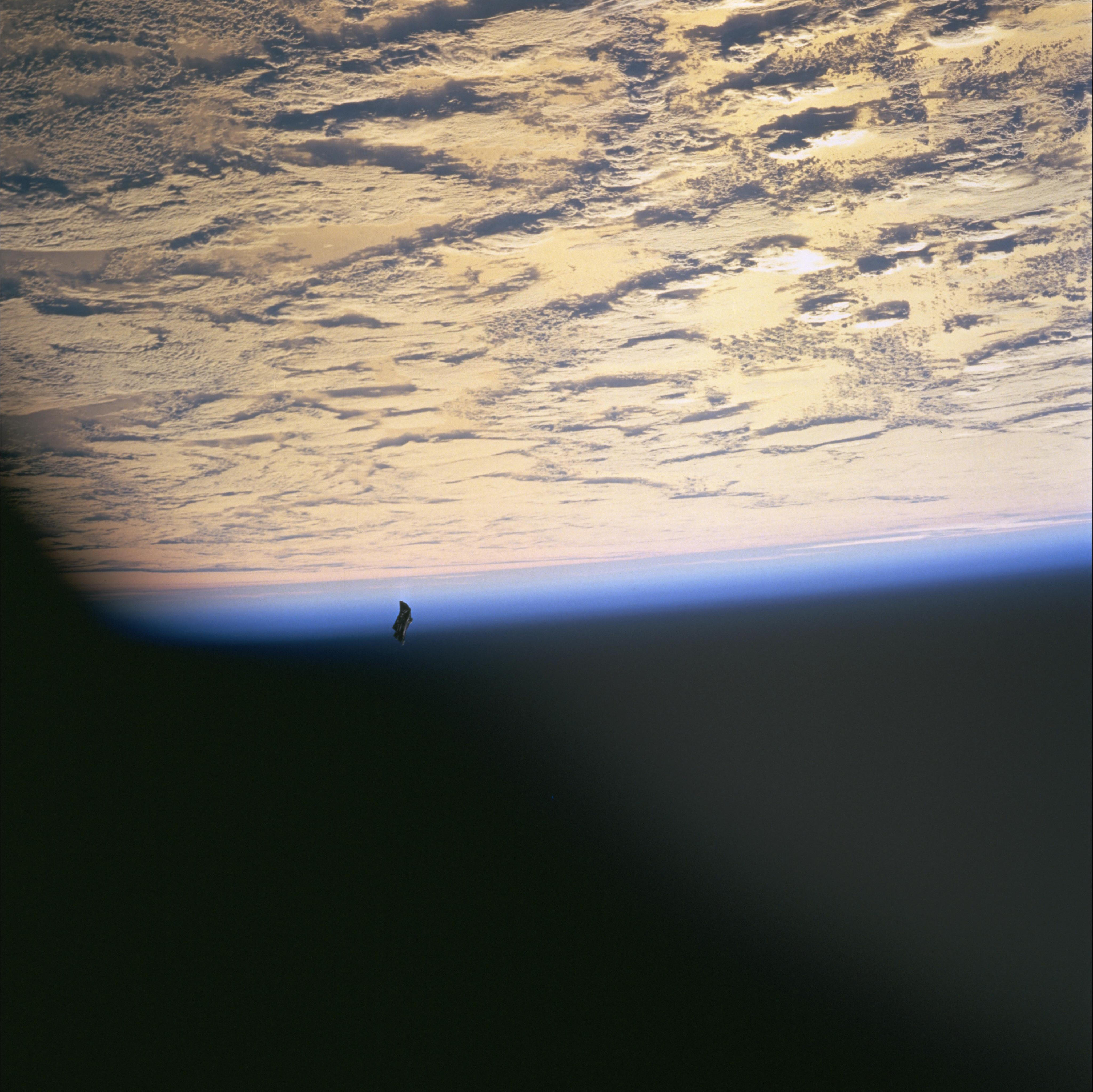 NASA photo ID STS088-724-66 taken during Space Shuttle mission STS-88, described as showing an item of "space debris", an object claimed by conspiracy theorists to be an alien satellite, the Black Knight.